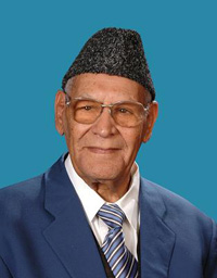 a picture of a man, a scholar